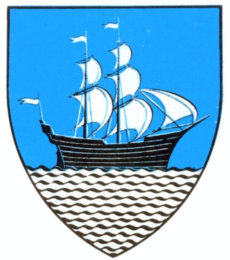 Coat of arms of Brăila County, Romania.